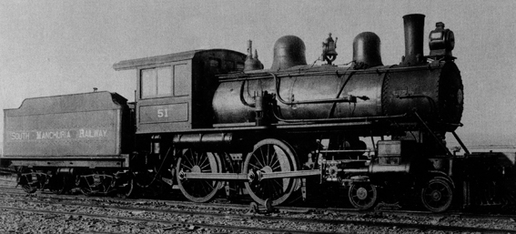 Builders photo of Ame class locomotive number 51 of the South Manchuria Railway.